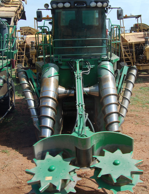 Cane harvester – A piece of the large machinery required to harvest and process sugar